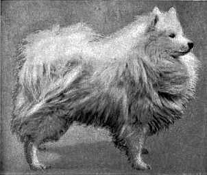 Pomeranian. (photo, Bowden Bros.)